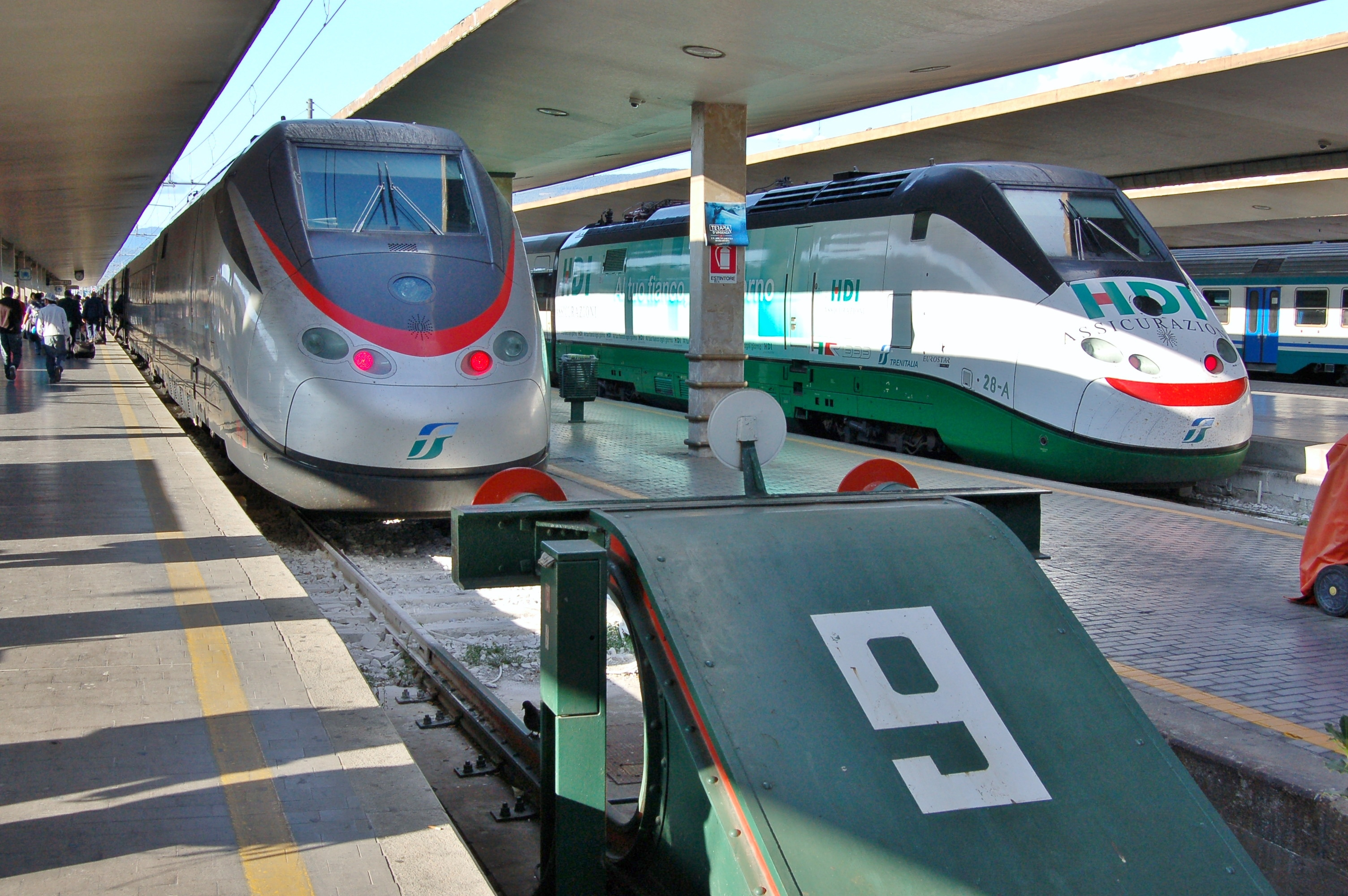 A pair of FS Elettro Treno Rapido 500 (ETR.500) bi-current high speed trains, at Firenze Santa Maria Novella. At left is set 09 in Treno Alta Velocità (TAV) livery, and at right is set 28 in original livery, with advertising for HDI Assicurazioni.